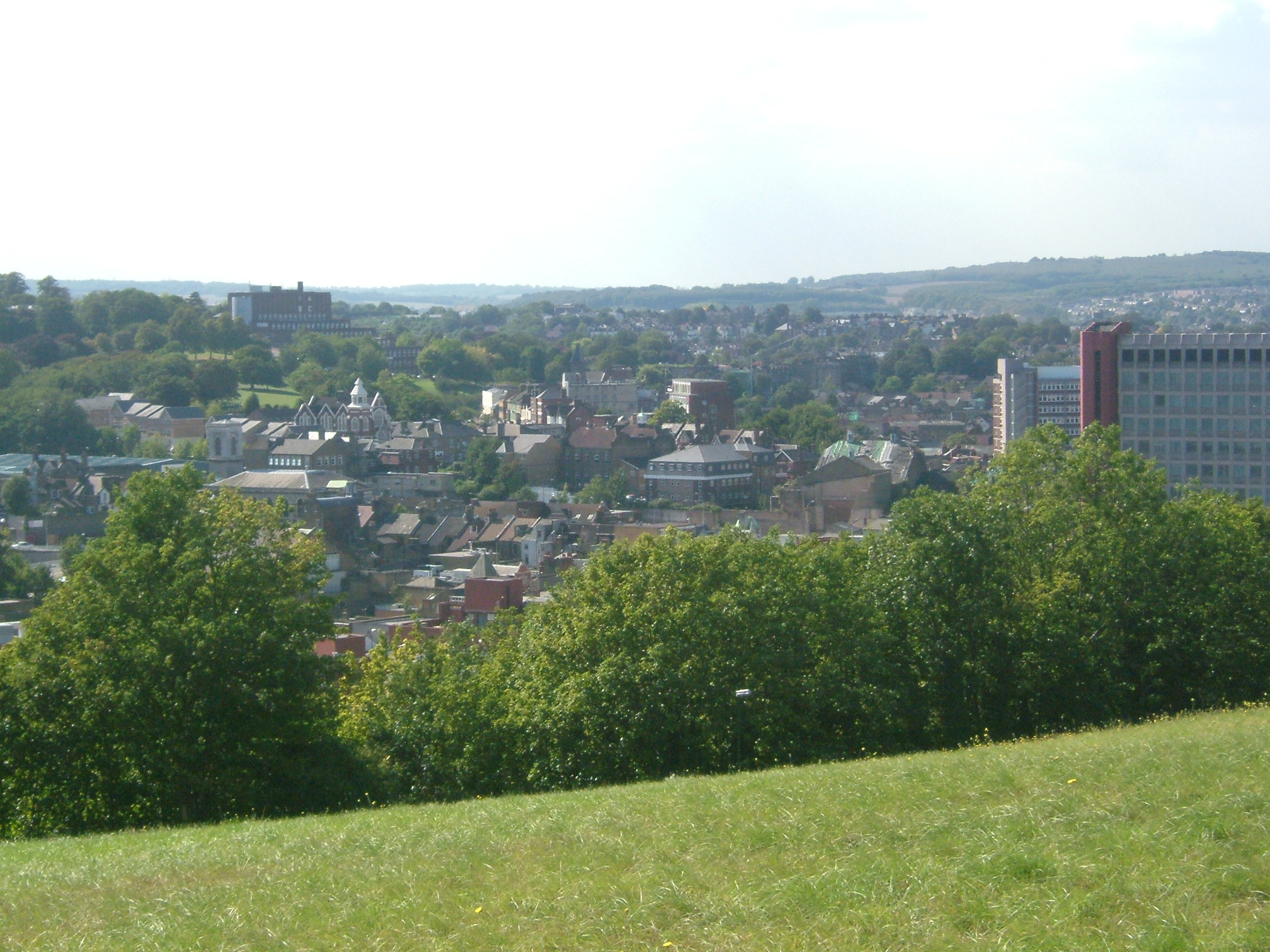 The Great Lines were part of the defence works around Chatham Dockyard to the north of Chatham, in Gillingham. Looking over Chatham. To the right is the Pentagon Office block, Mountbatten House. To the left is Victoria Gardens and FortPitt with the KIAD descending the hill. On the horizon we see Strood, Temple Wood, Ranscombe Farm, and Cuxton on the North Downs. Standard. The nick on the tree line is where the M2 runs. - Google Maps - Google Earth